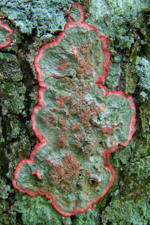 Cryptothecia sp. growing on a guayaibi (Patagonula amaricana) tree in Parque National Chaco, Chaco Province, northern Argentina.